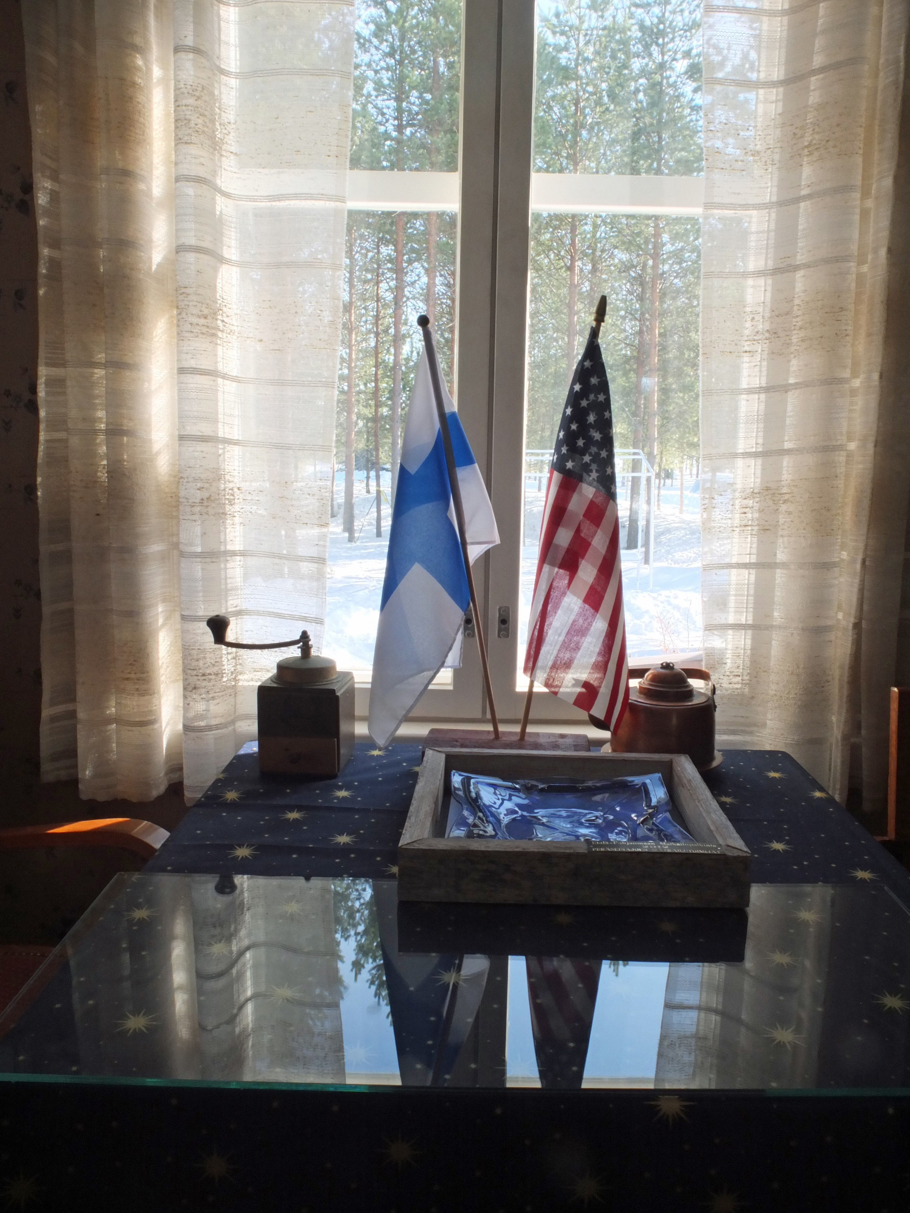 Hakala house with memorabilia about Finnish emigration to the USA, Part of Finnish Emigrant Museum, located in Kalajärvi, Seinäjoki, Finland.